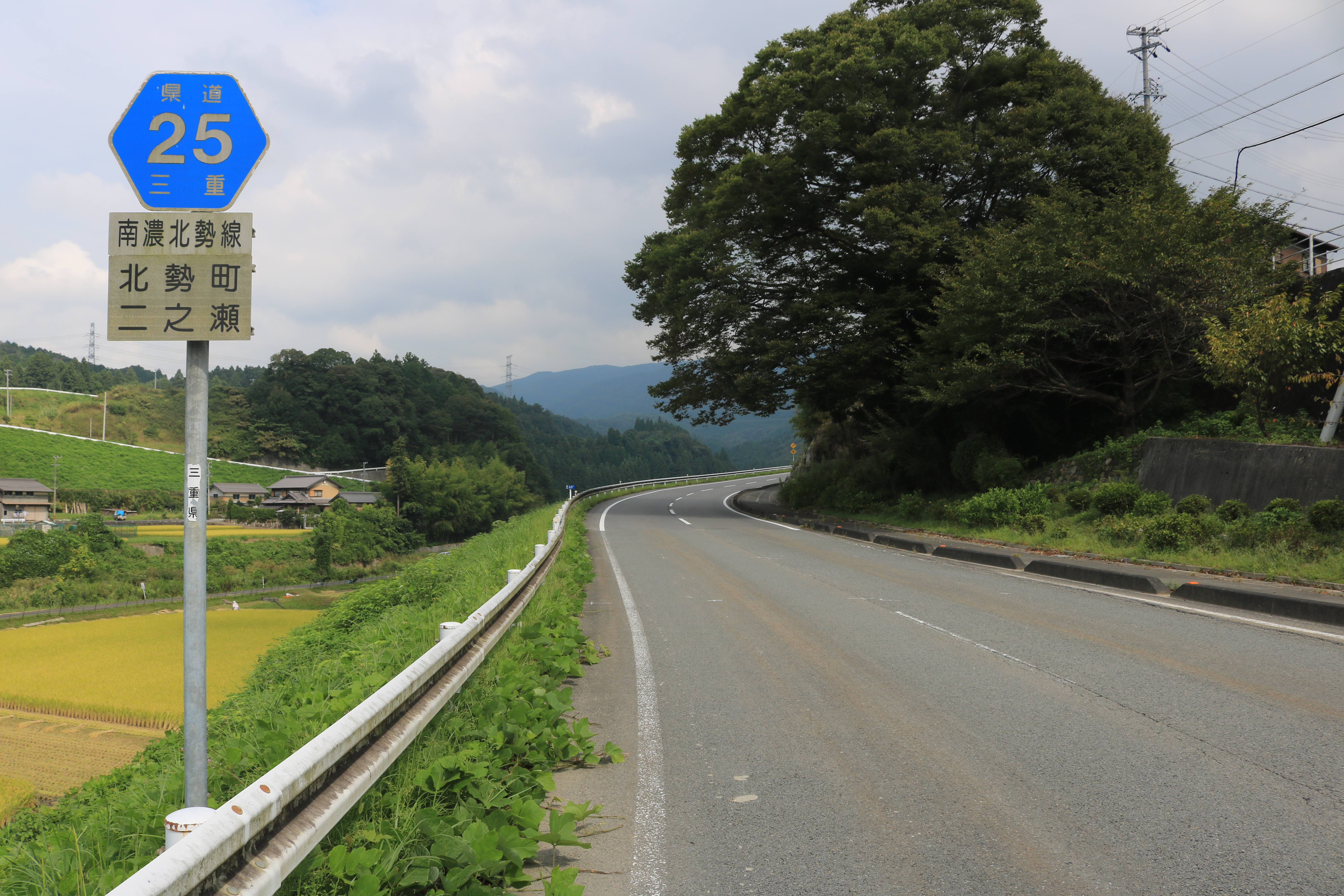 Mie Prefectural Road Route 25 in Ninose, Hokusei-cho, Inabe, Mie prefecture, Japan.